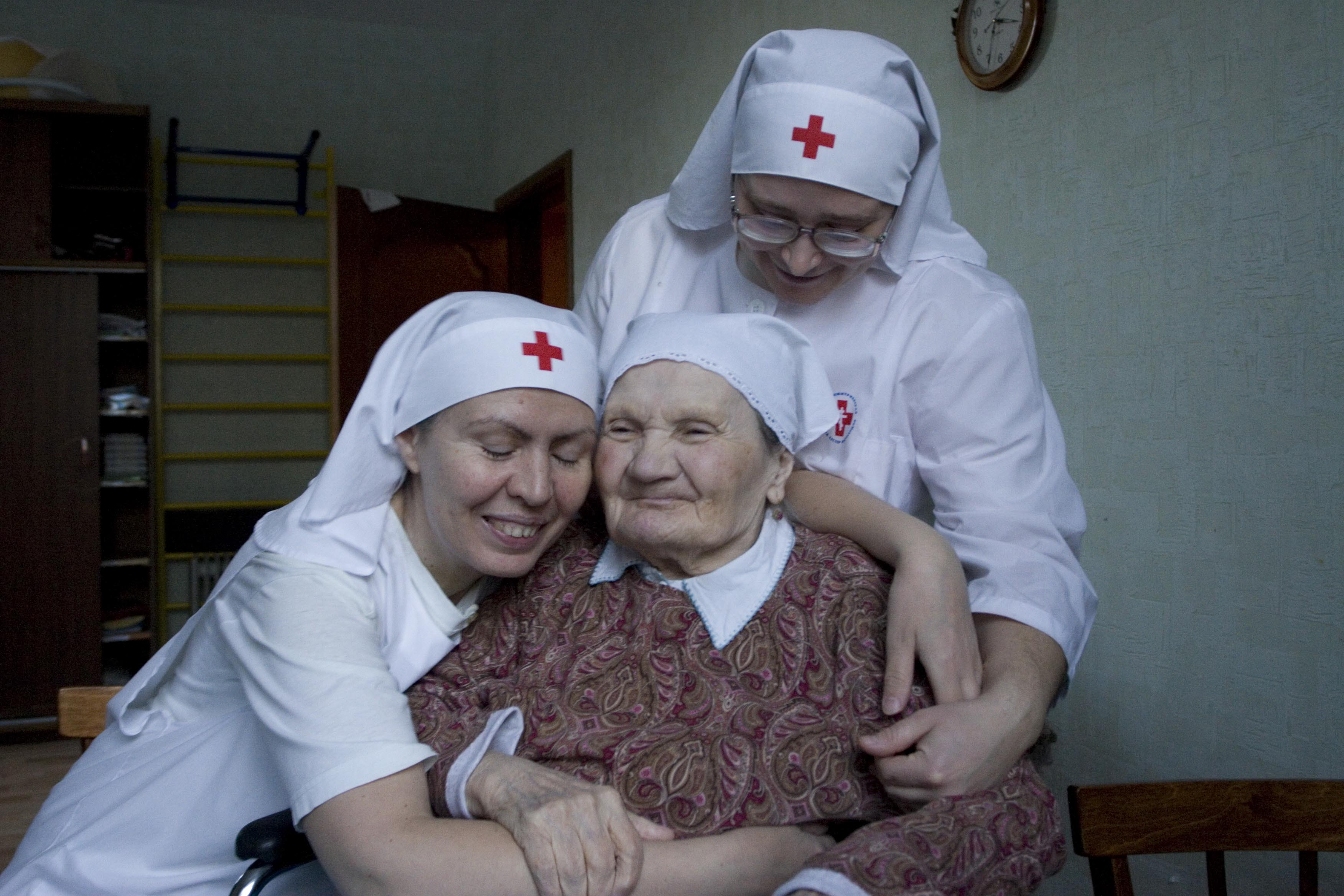 Свято-Спиридоньевская богадельня